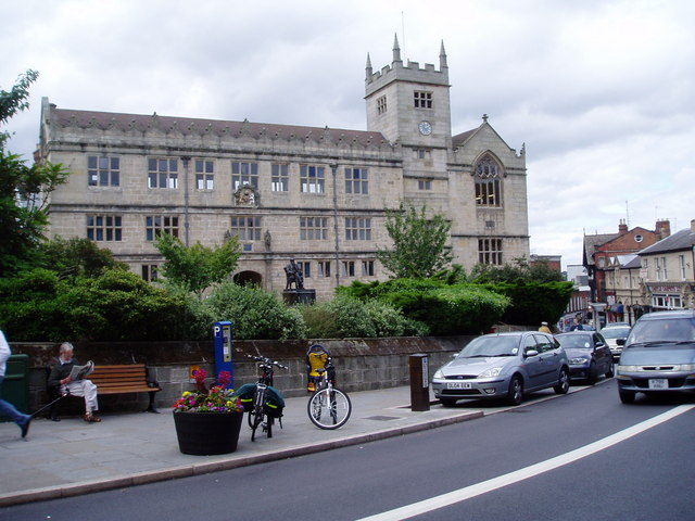 Shrewsbury Library Originally this building was Shrewsbury School from 1550 to 1882.